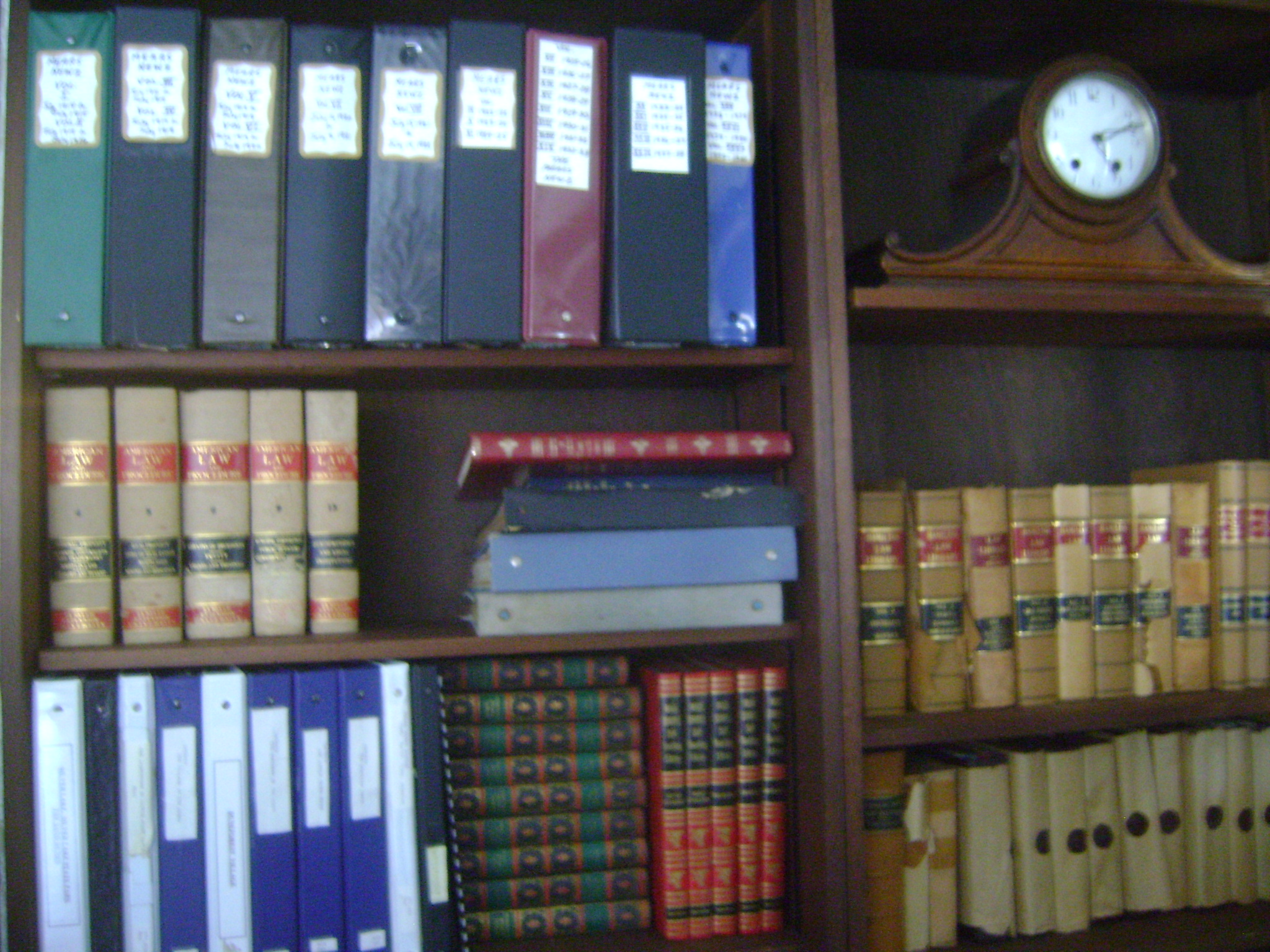 Swift Lathers' personal library at his Mears home in Michigan